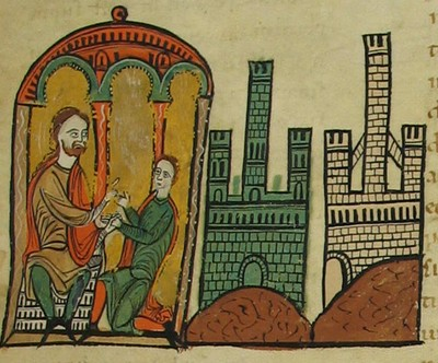 Liber Feudorum Maior - The scene depicts the moment when the Count of Besalú, Bernard Tallaferro, donates the castles of Tautavel and Pena to his son and future successor William I. The count, seated, is holding the hand of his son, who is kneeling, with the two castles in the background.